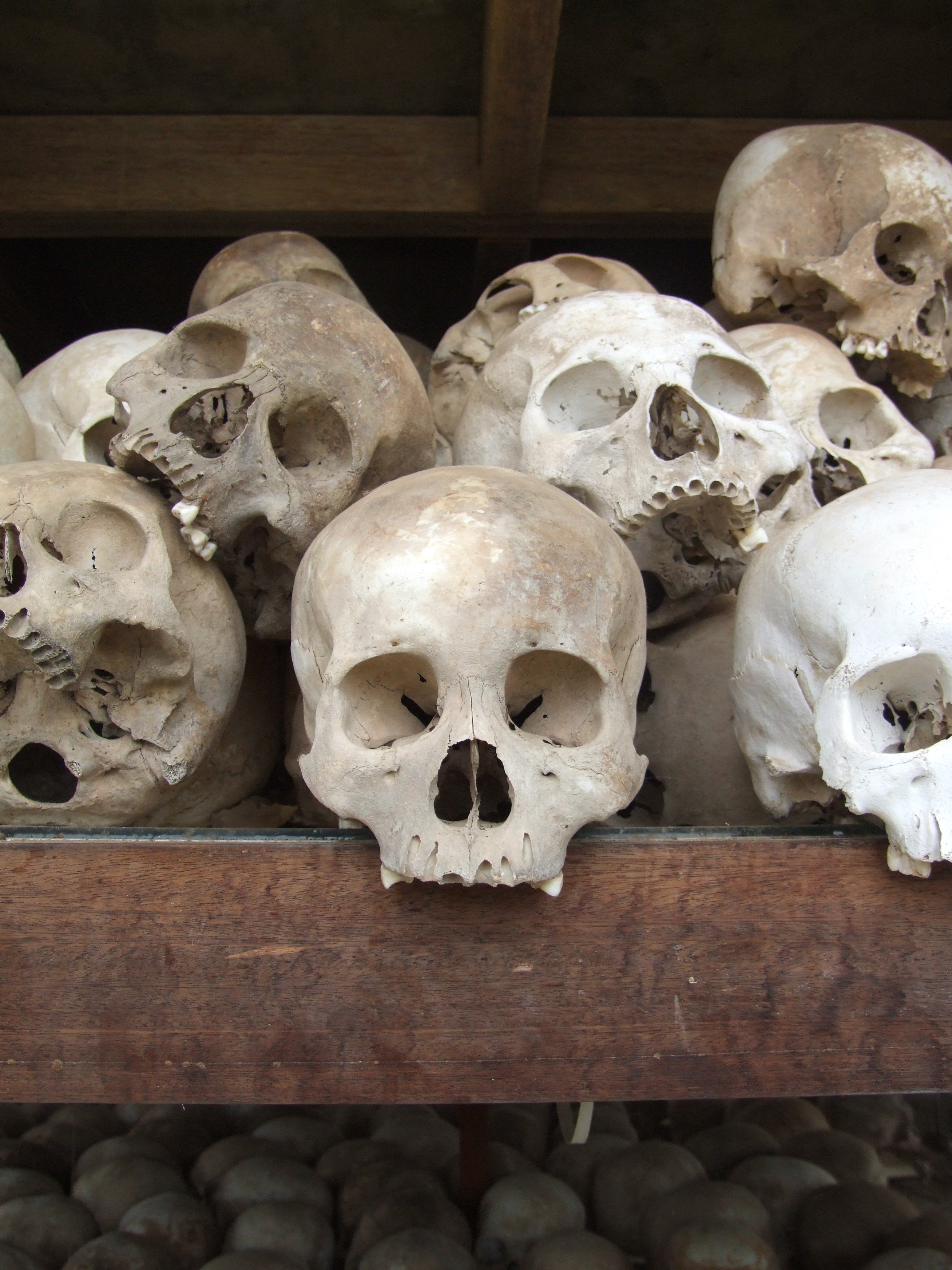 Skulls from the stupa memorial at the killing fields of Choeung Ek, near Phnom Penh, Cambodia.